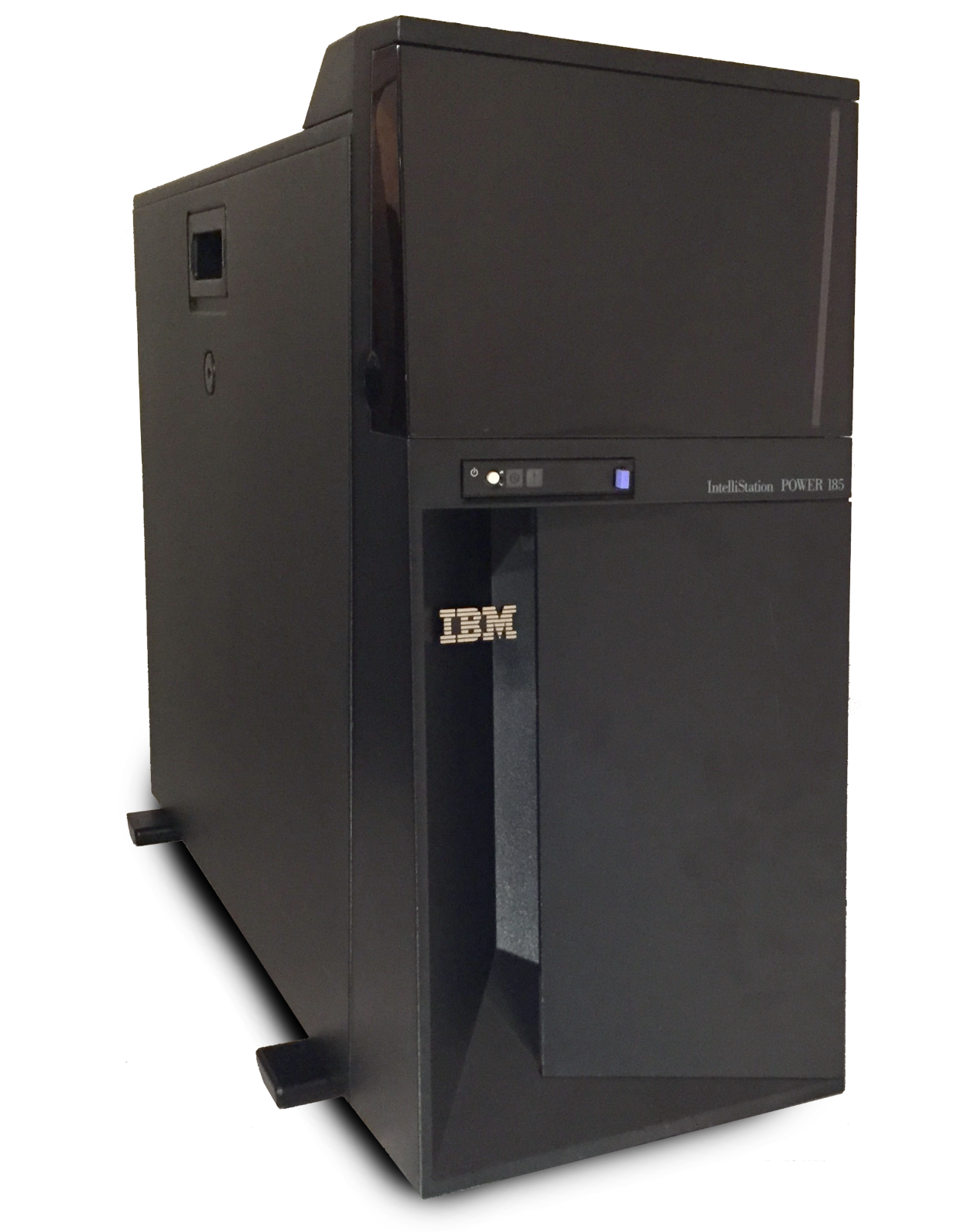 A picture of the IntelliStation POWER 185 workstation developed by IBM. The workstation was designed to run AIX with CAD but also Linux for POWER. It features a PowerPC 970 microprocessor.